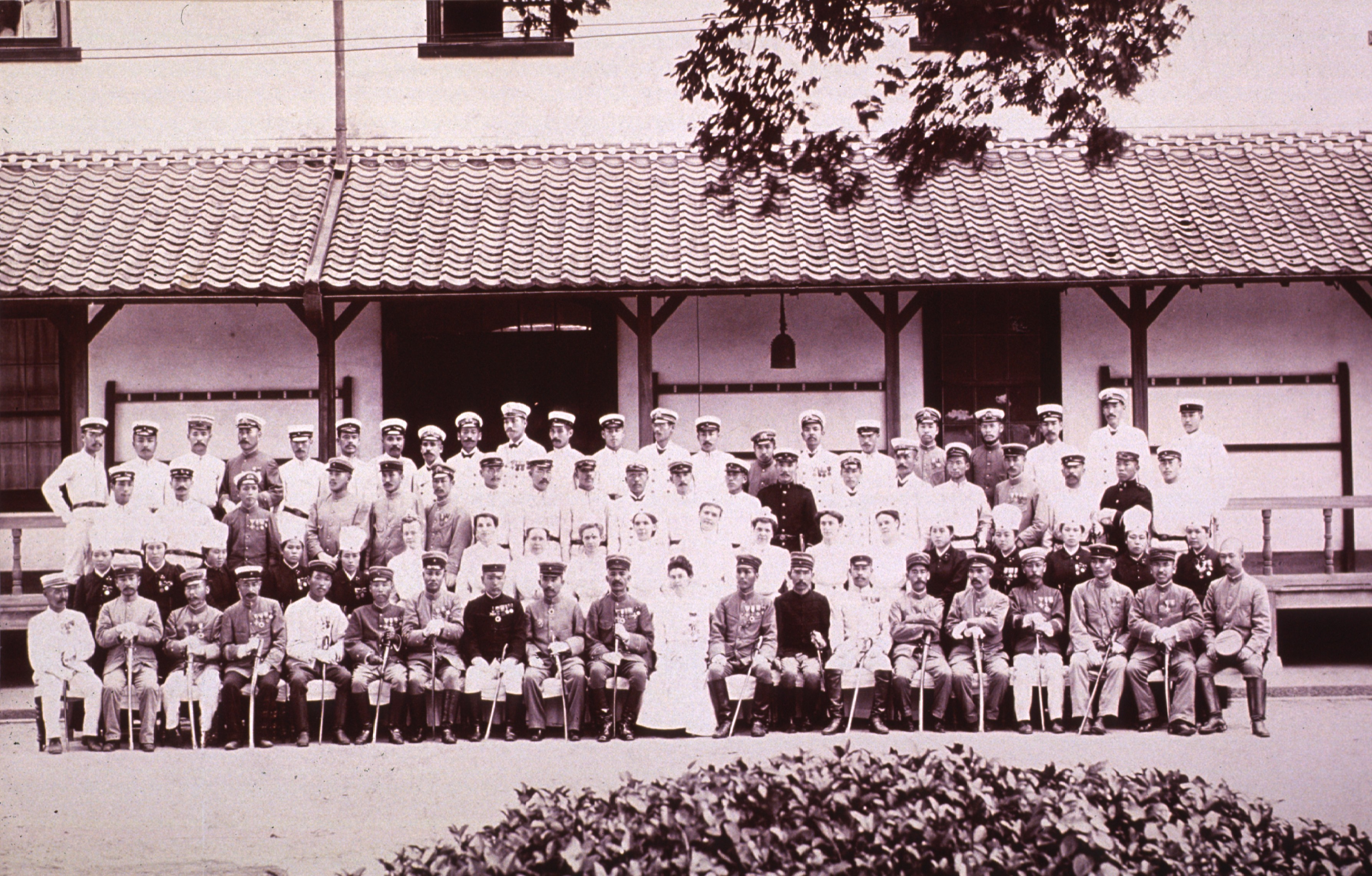 American Nurses in Japan. A few of the surgeons, pharmacists, chief nurses (male & female) of the Hiroshima Base Hospital